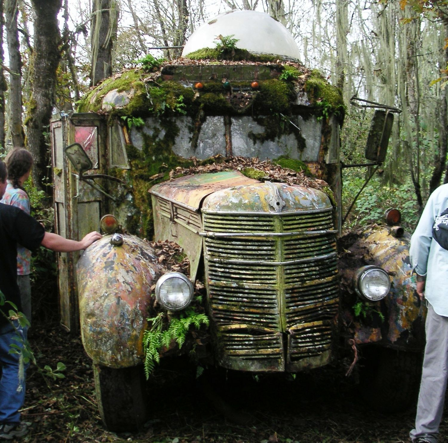 Further in disrepair